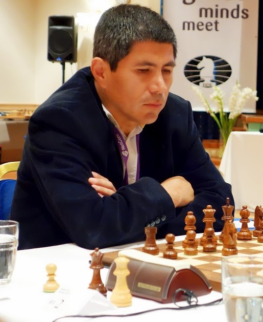 Chess Peruvian Grandmaster